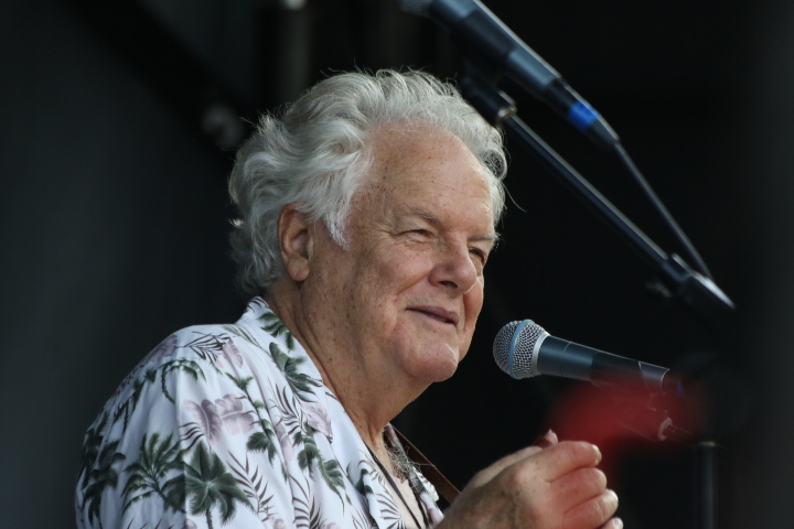 Peter Rowan at MerleFest in 2017. Photo by Forrest L. Smith, III.